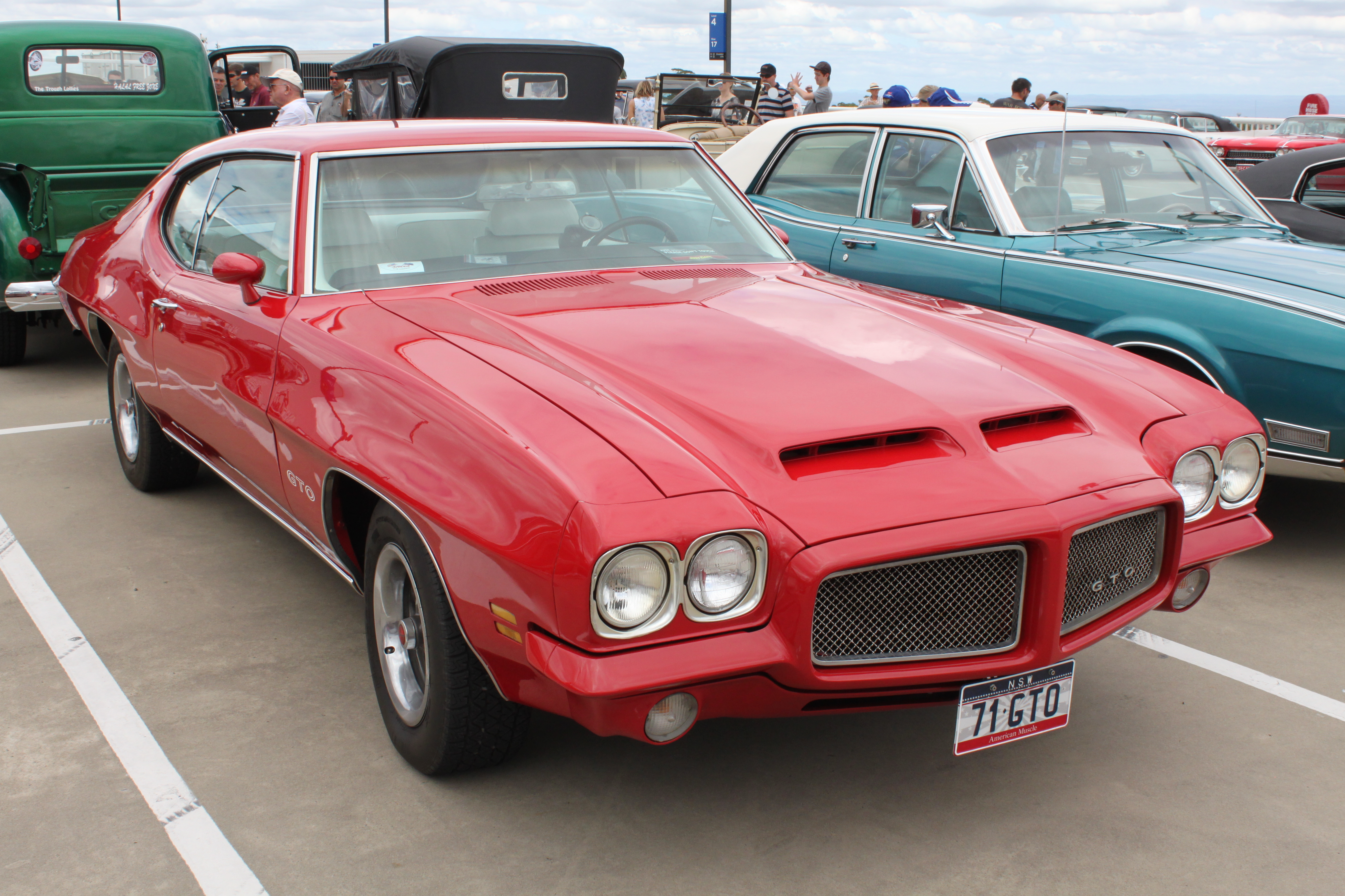 All American Car Show, Castle Hill, NSW January 2016